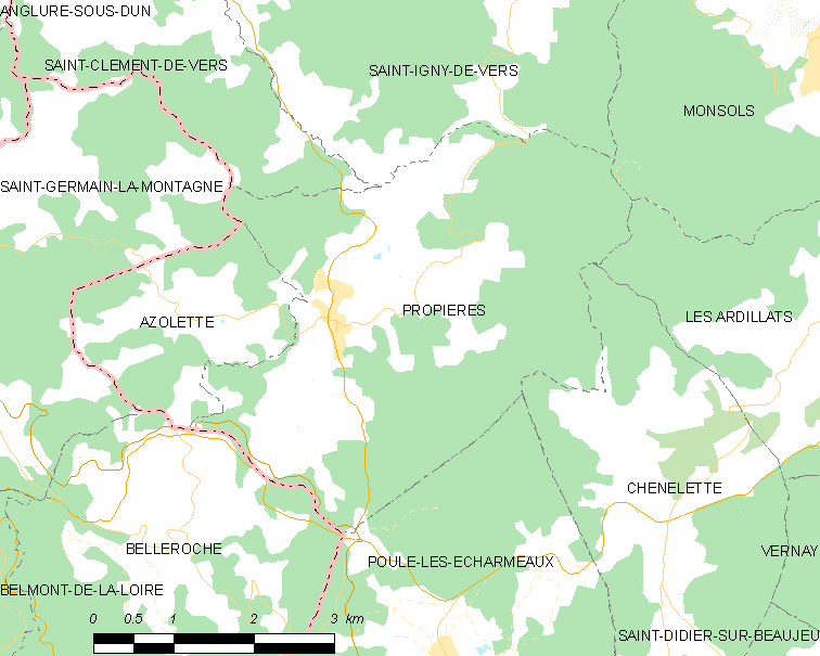 Map of French municipality